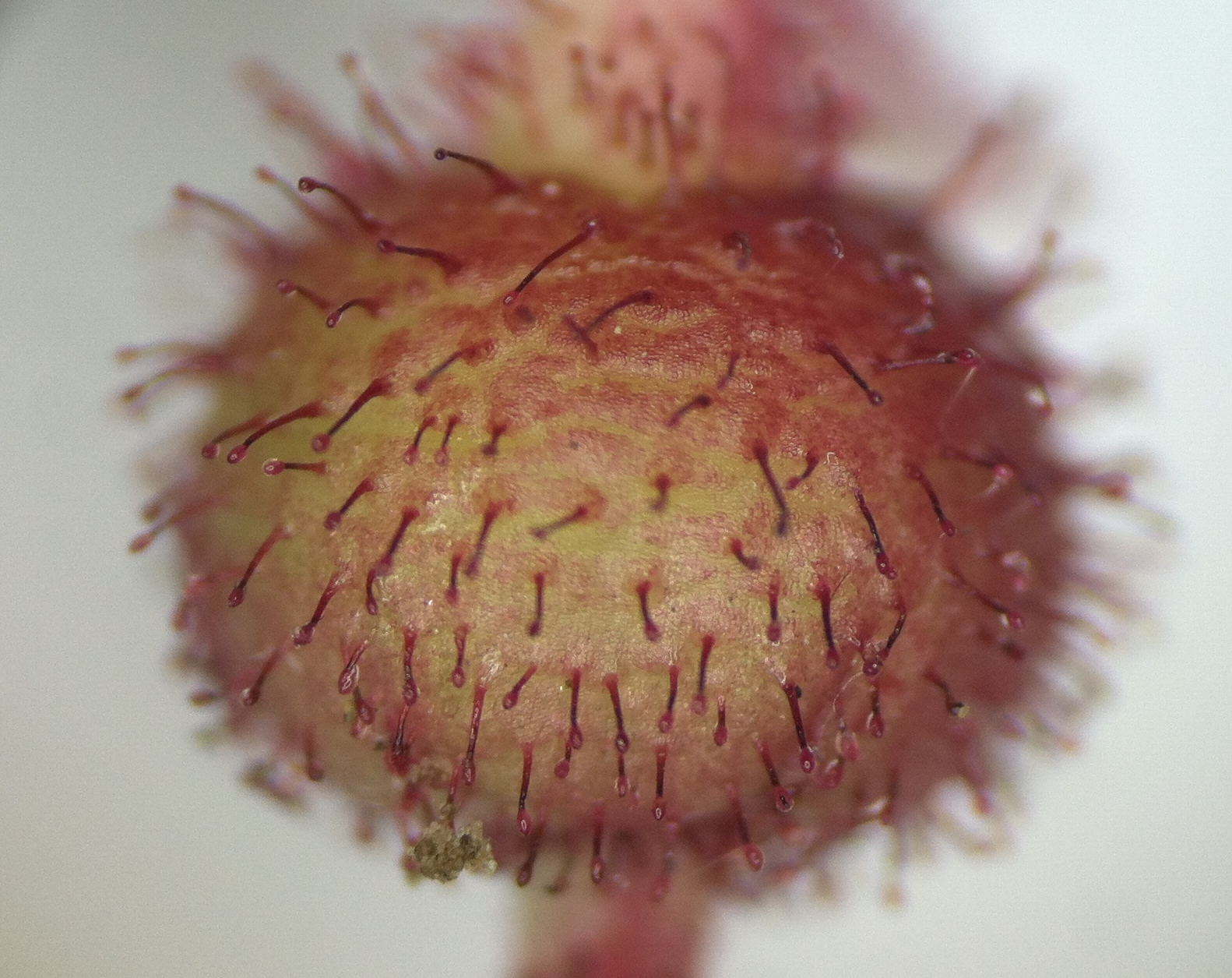 A very young salal fruit, in early stages of formation